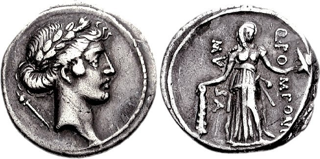 Q. Pomponius Musa. 56 BC. AR Denarius (3.81 g, 8h). Rome mint. Laureate head of Apollo right; scepter to left / Melpomene, the Muse of Tragedy, standing facing, head right, holding club and mask.